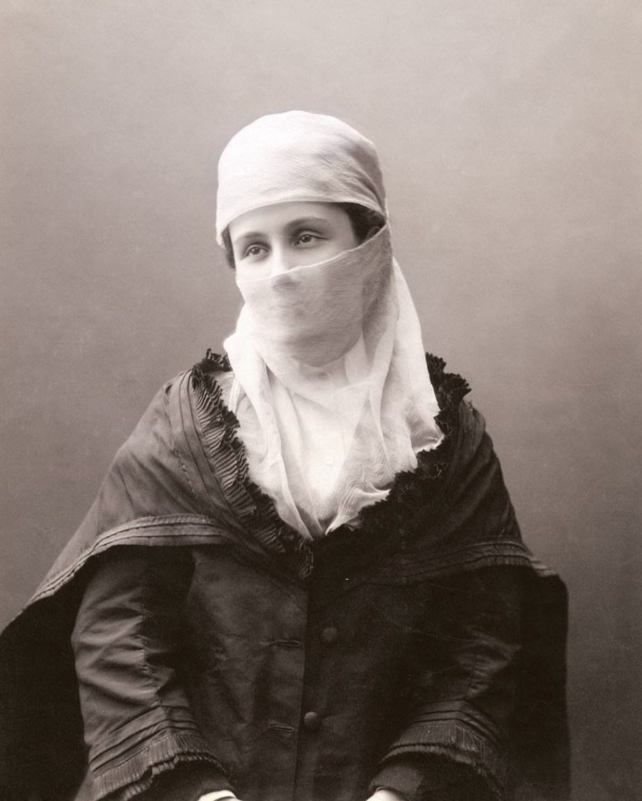 A Ottoman women, İstanbul-1894